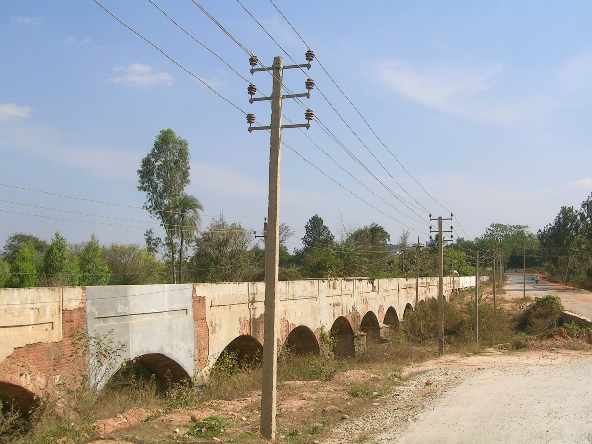 Old aqueduct running from Hessarghatta that used to suppy the city of Bangalore with water.